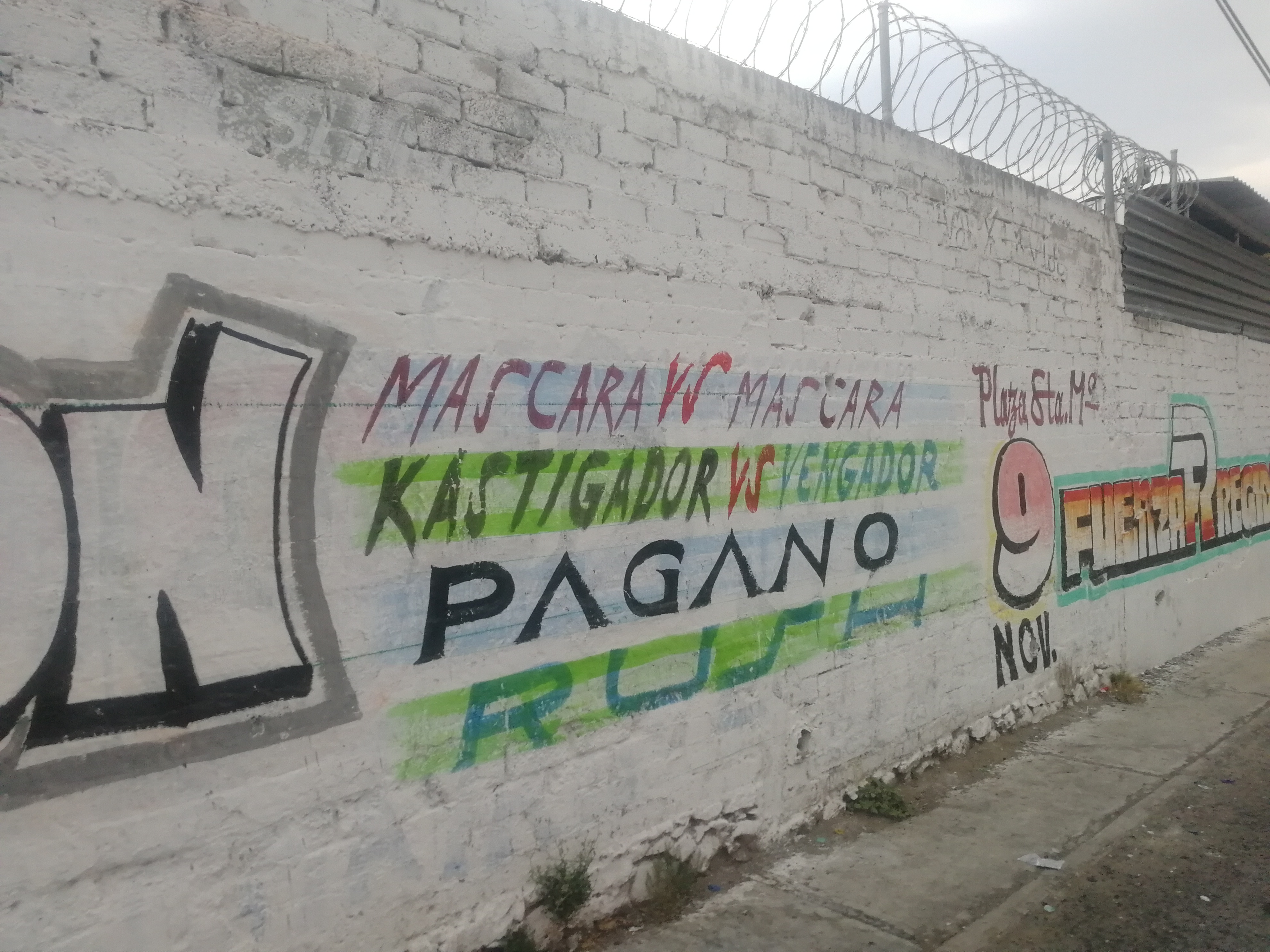 Graffiti outside Arena Queretaro